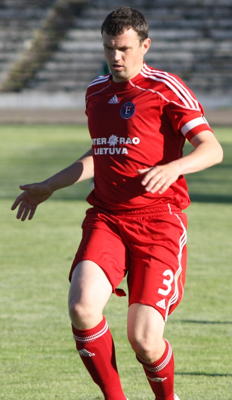 Dainius Gleveckas playing for Ekranas Panevėžys.